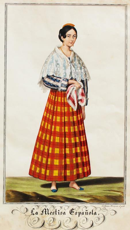 "La Mestisa Española" Tipos del País (19th Century Watercolor) by Justiniano Asuncion